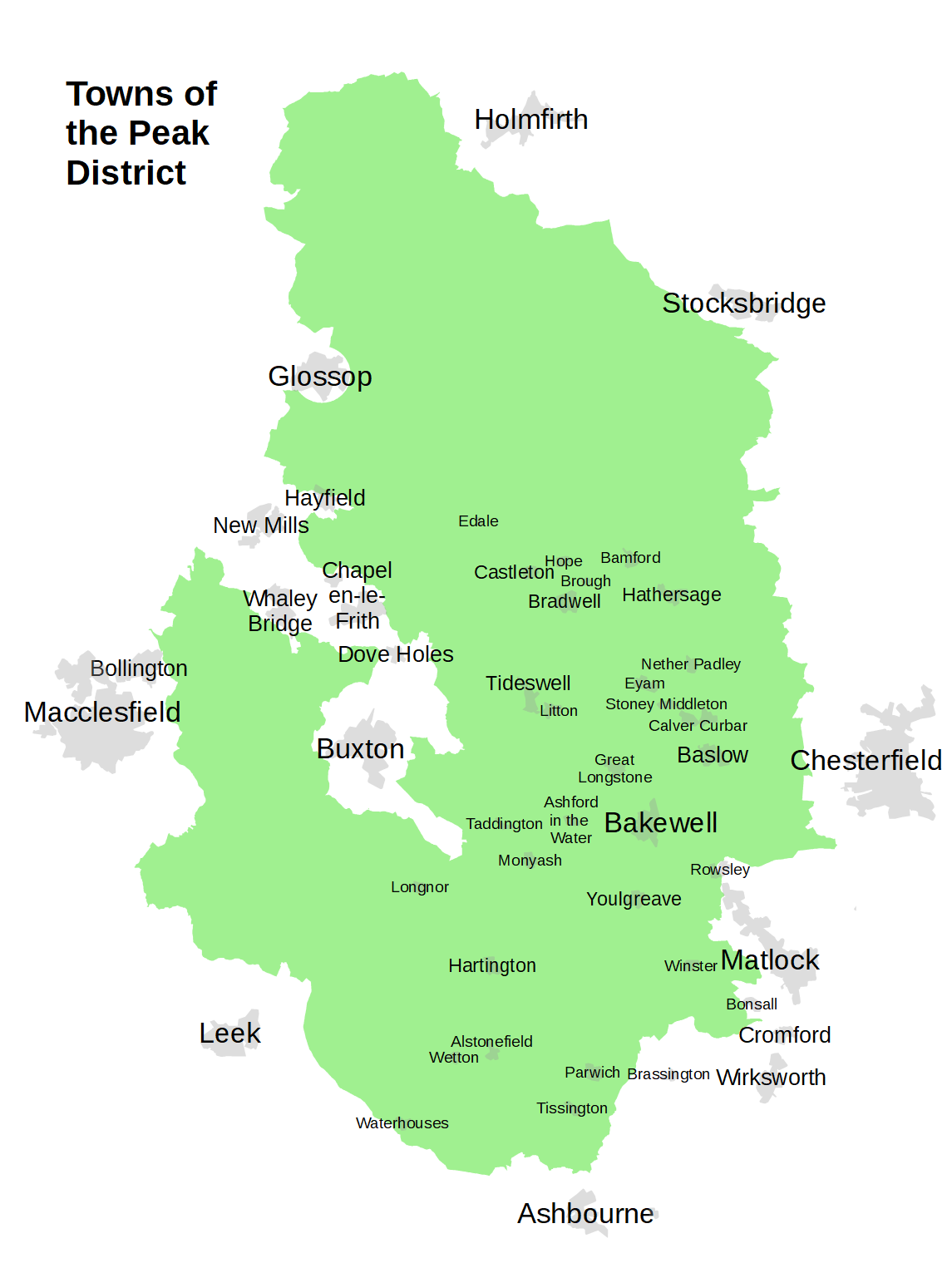 Towns and main villages in and around the Peak District